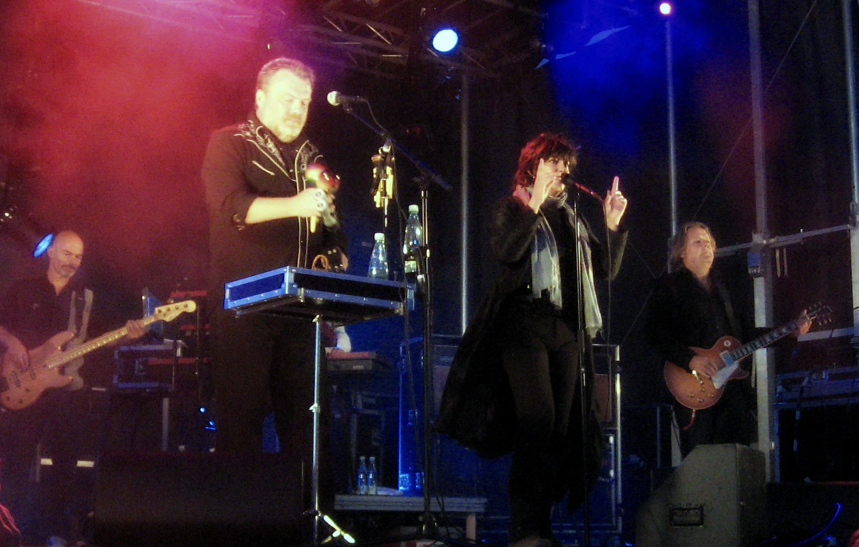 Danish pop group "Dodo and the Dodos", concert in Hirtshals, 2012